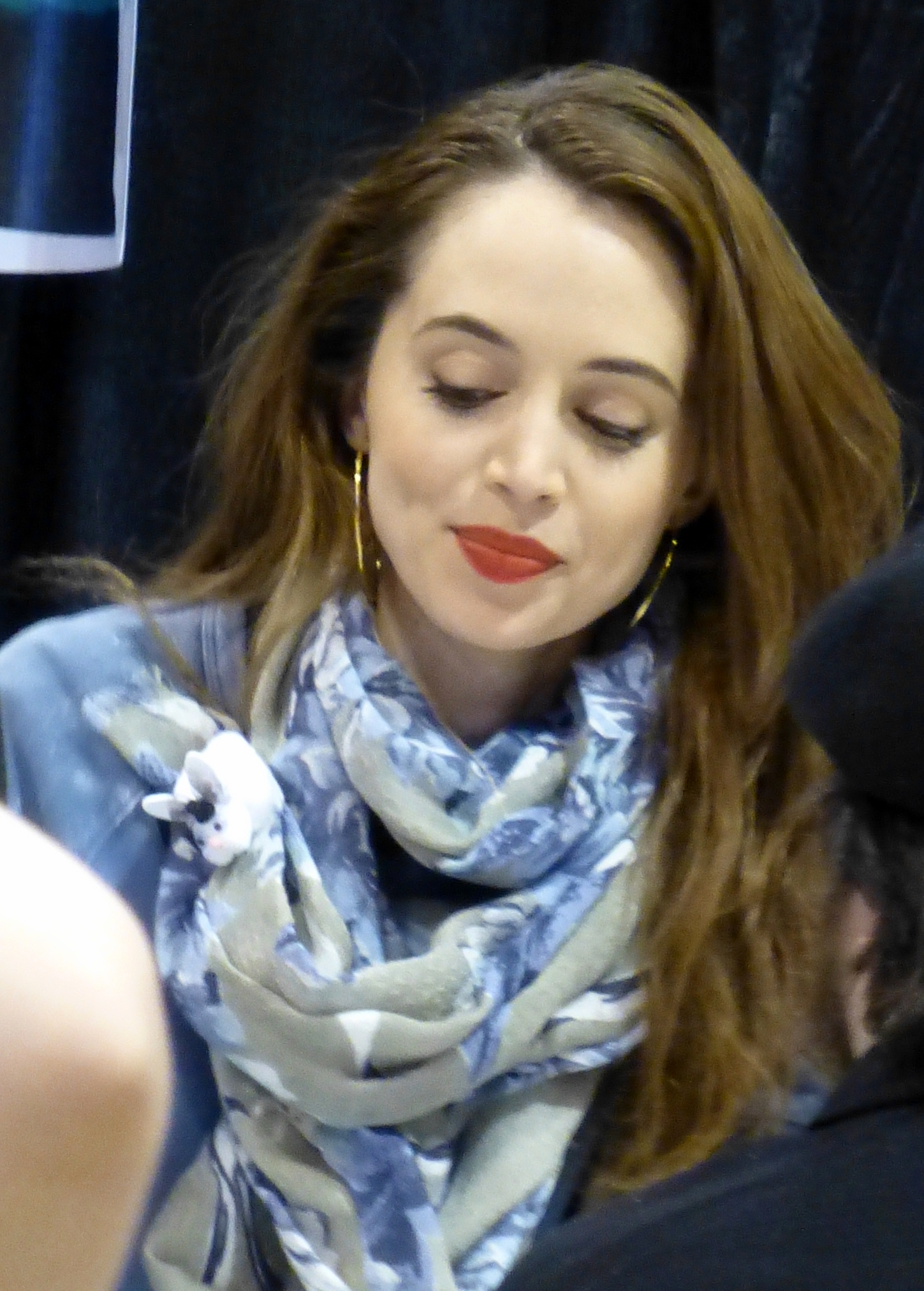 Wizard World St. Louis 2014